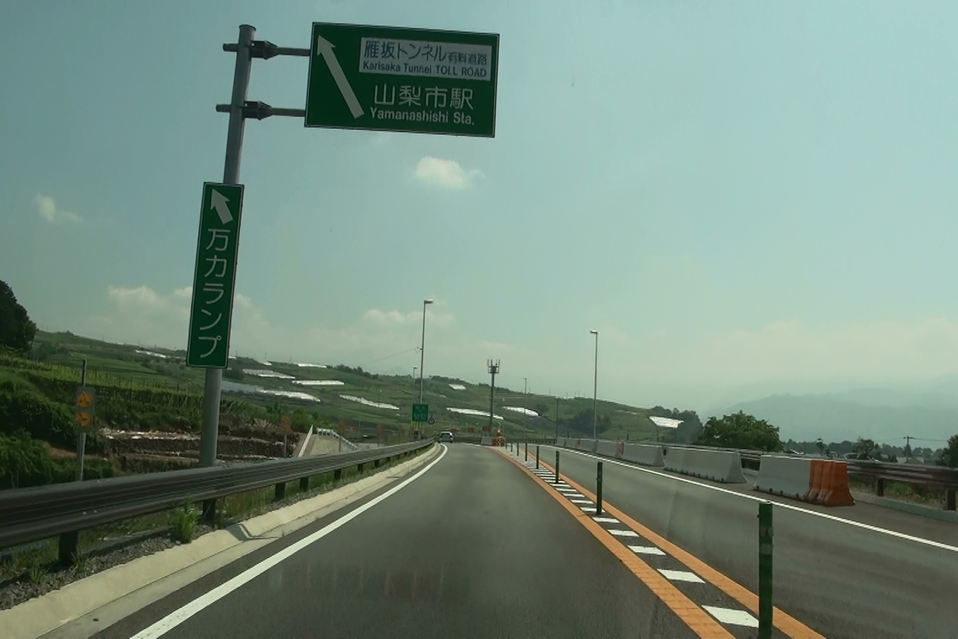 Kofu-Yamanashi road Manriki-ramp